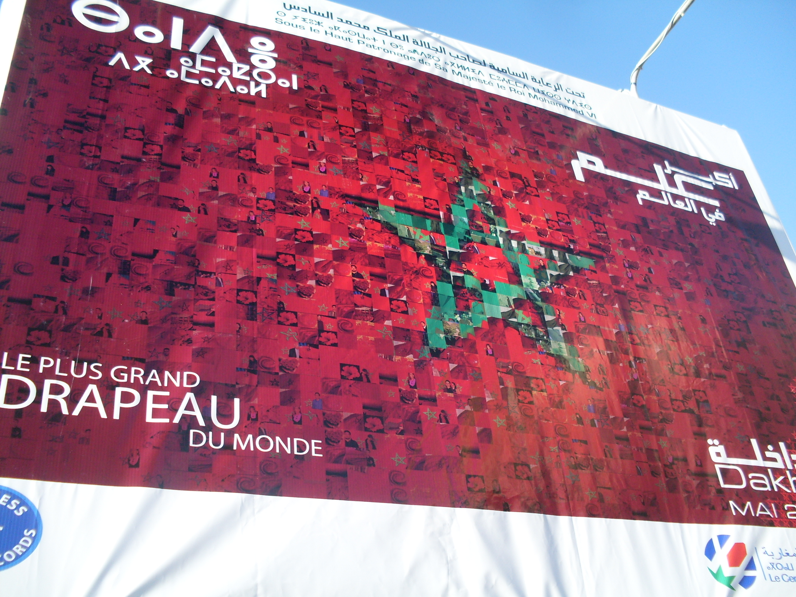 Poster, World's Largest Flag, Dakhla